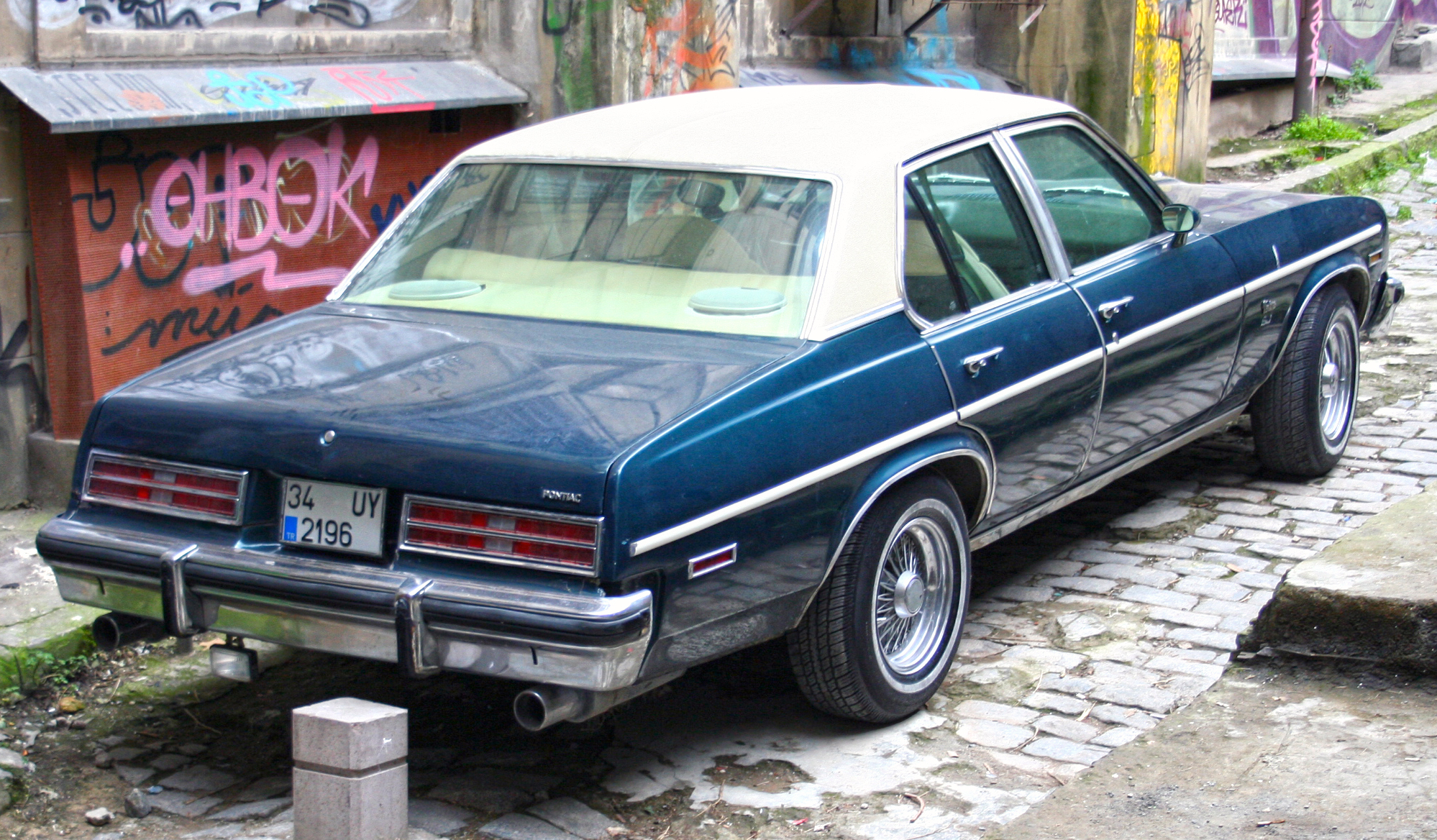 Rear view of a much photographed Pontiac Ventura SJ sedan near the Galata Tower, Istanbul.